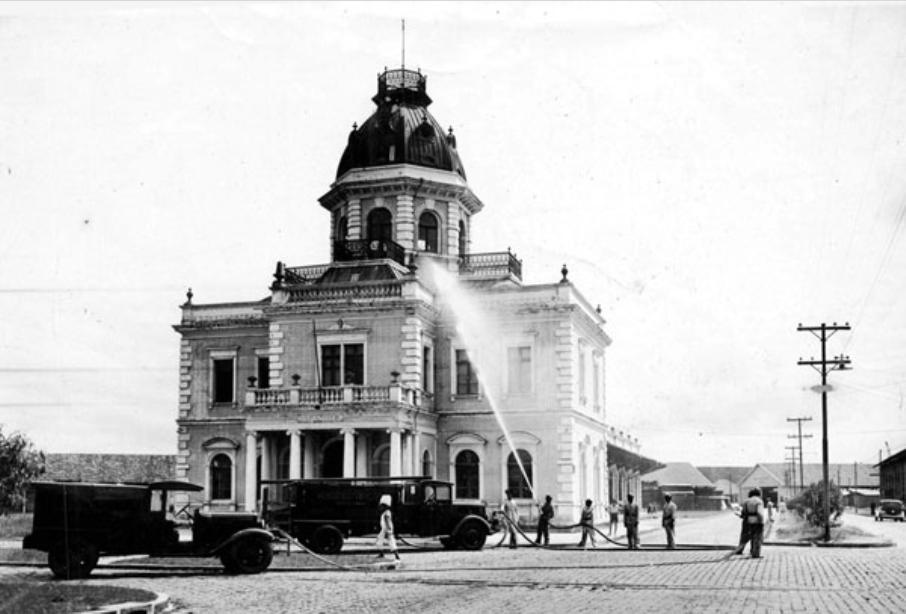 Training of Firefighters - Parana - Brazil.